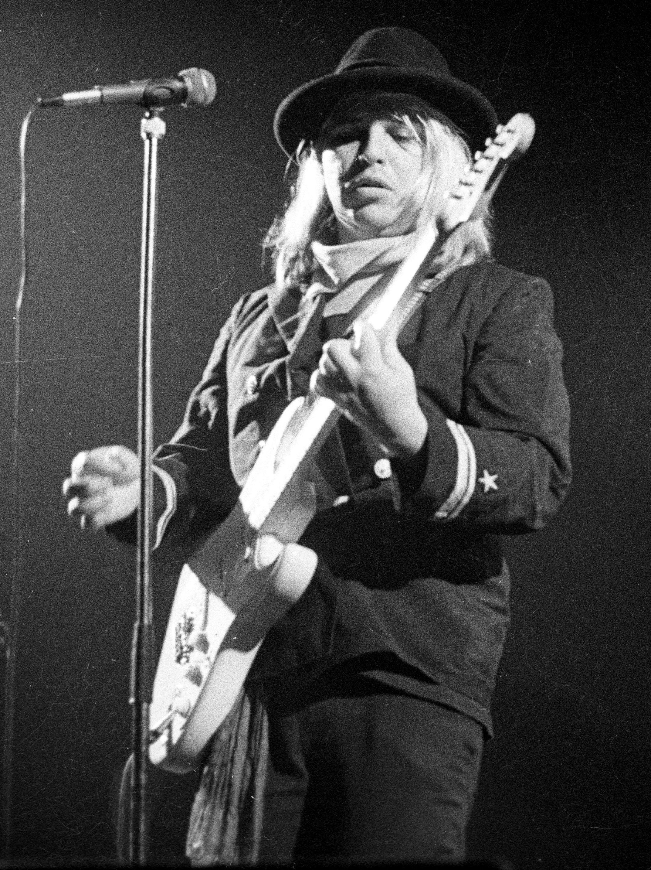 Jeffrey Lee Pierce, member of The Gun Club.